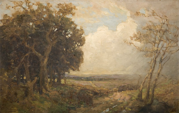 George Phoenix. Corner of Cannock Chase. 1910s